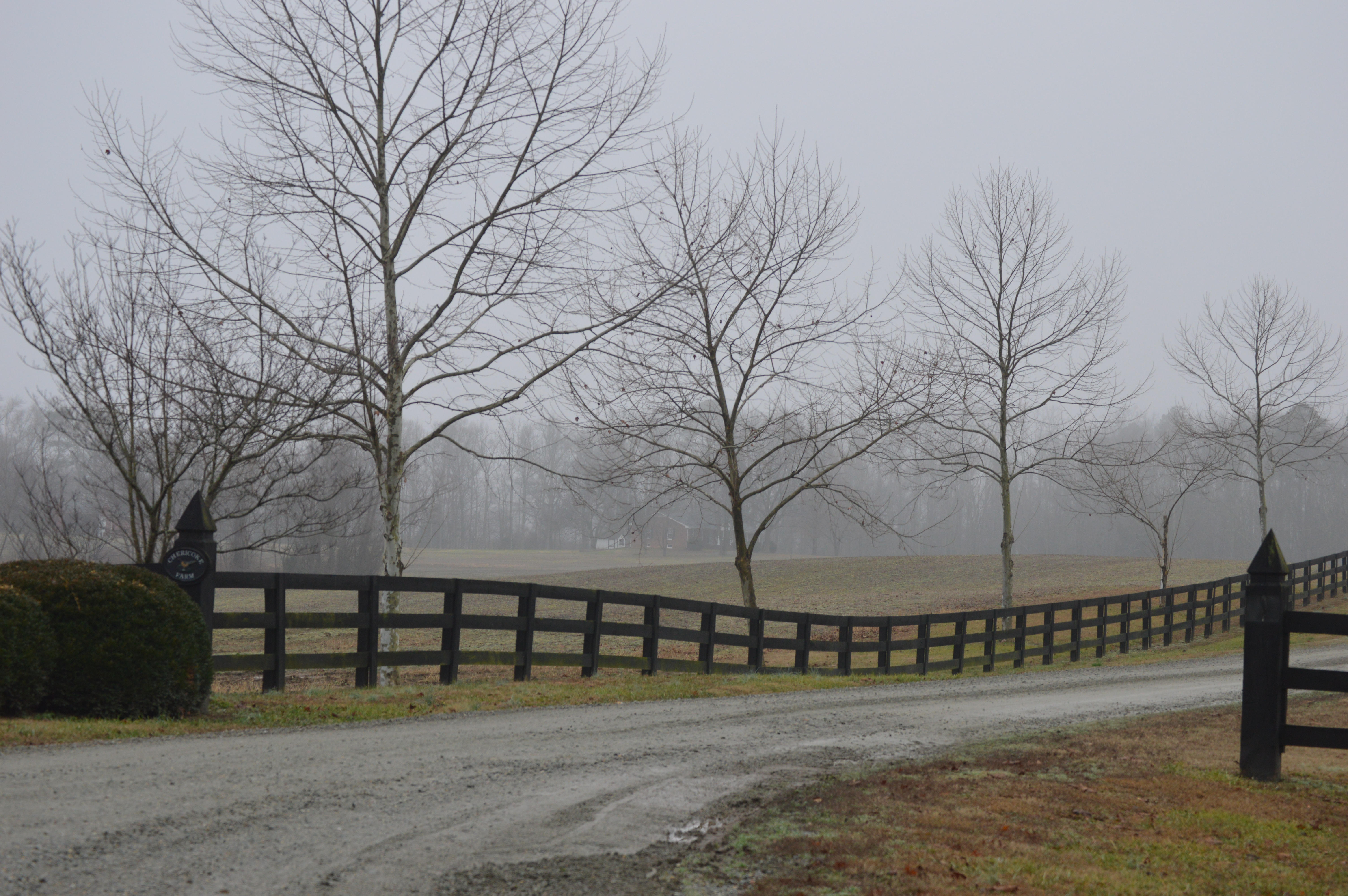 Entrance to the Chericoke estate (of which the brick house in the distance is not a part), located on River Road southwest of King William in King William County, Virginia, United States. The farmstead is listed on the National Register of Historic Places.